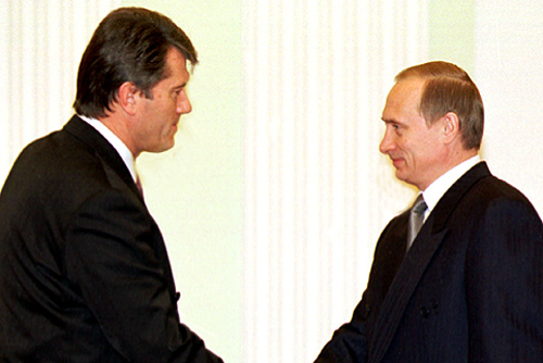 THE KREMLIN, MOSCOW. With Ukrainian Prime Minister Viktor Yushchenko.